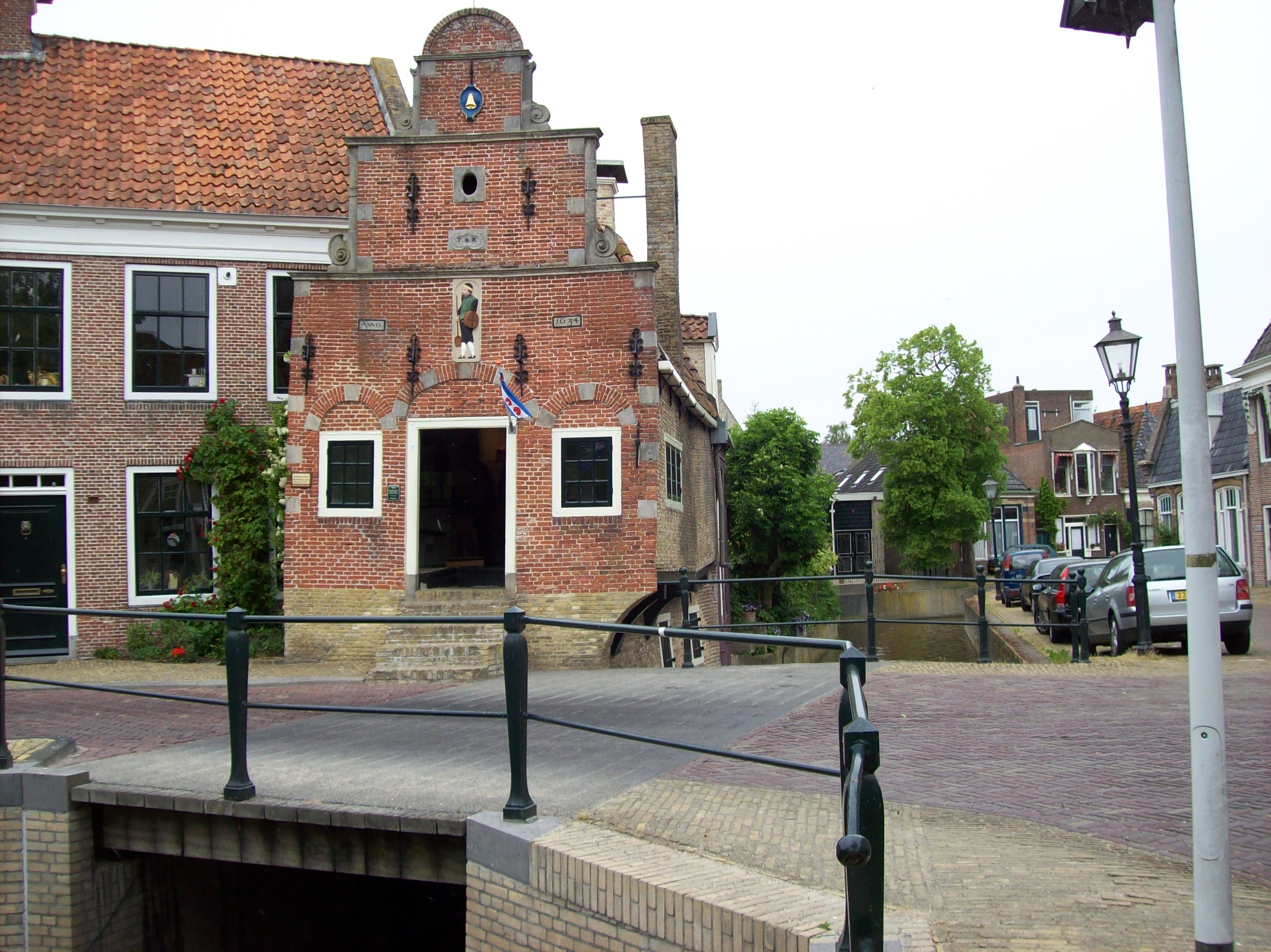 Franeker grain museum, NL.